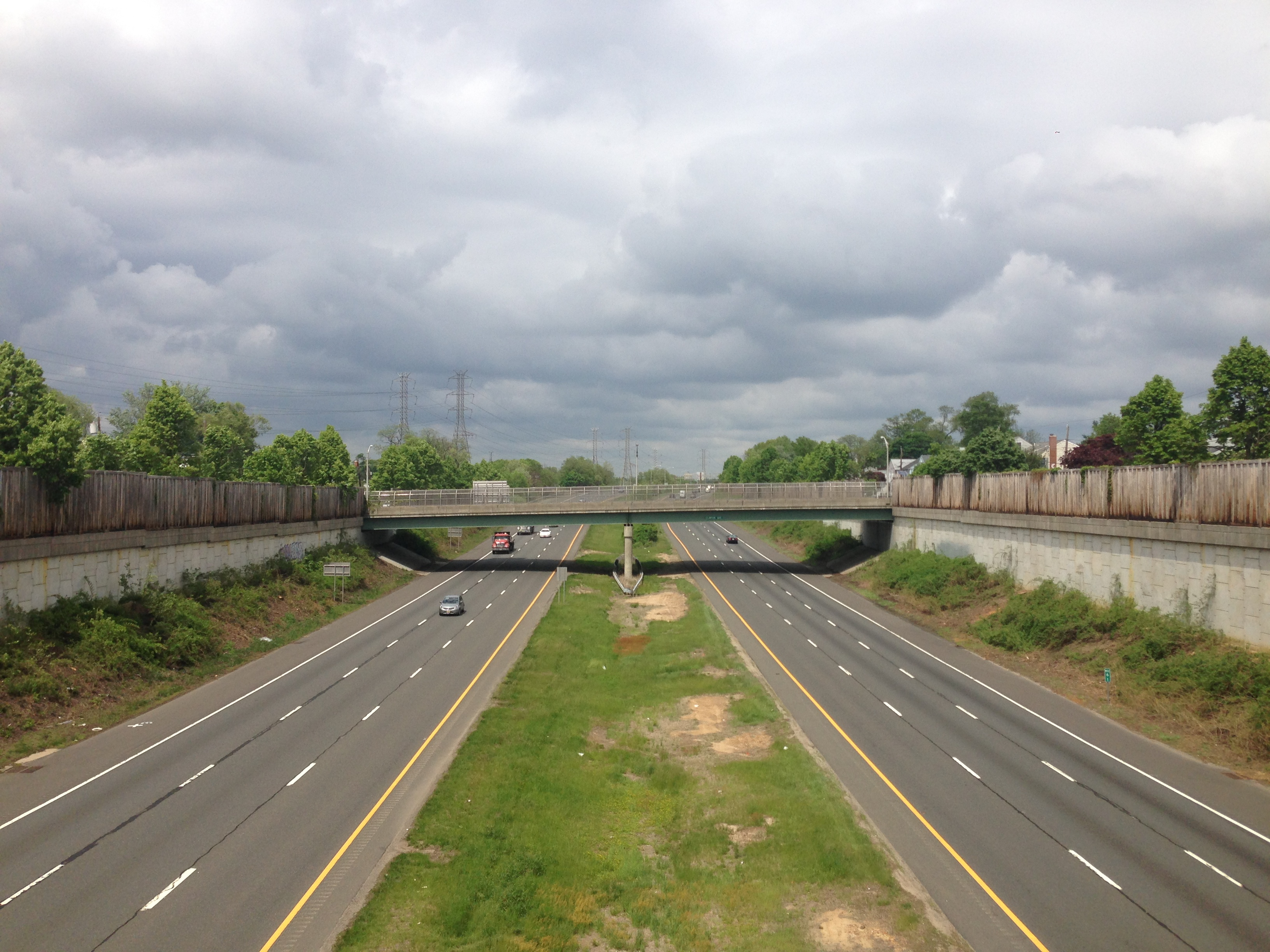 View north along Interstate 295 (Camden Freeway) from the overpass for U.S. Route 206 (South Broad Street) in Hamilton Township, Mercer County, New Jersey